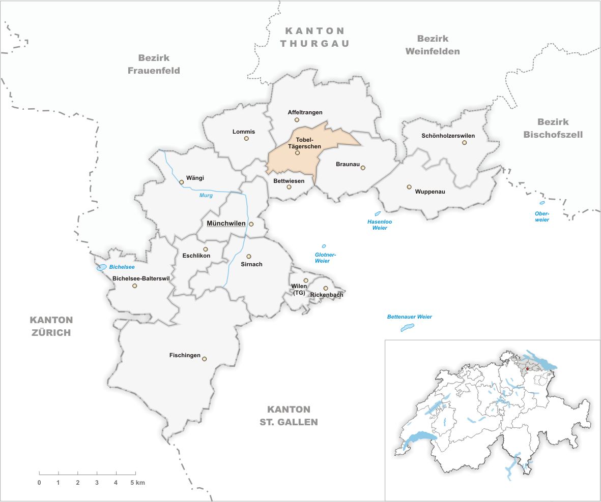 Municipality Tobel-Tägerschen